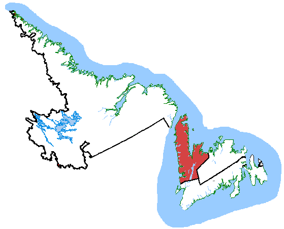 Map of the Humber—St. Barbe—Baie Verte electoral district. Based on Earl Andrew's maps, created by SimonP.